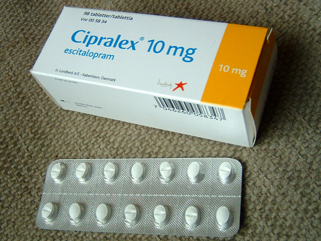 Cipralex brand escitalopram package and sheet of pills